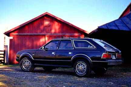 1988 AMC Eagle Wagon near Old Rag Mountain in Speryville VA.